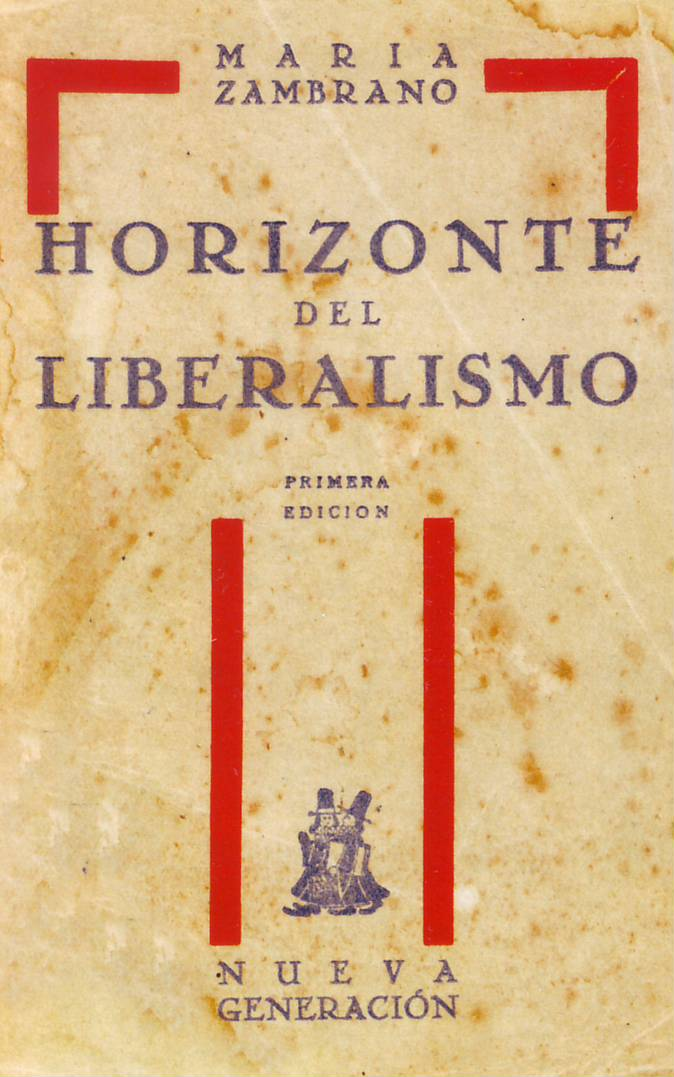 Title pages of Horizonte del Liberalismo, by María Zambrano (1904 - 1991).